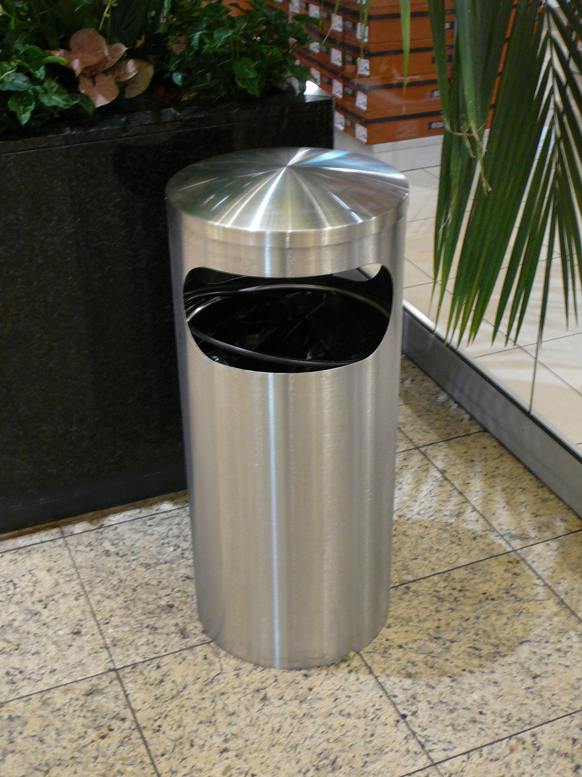 Waste basket in Vaňkovka in Brno